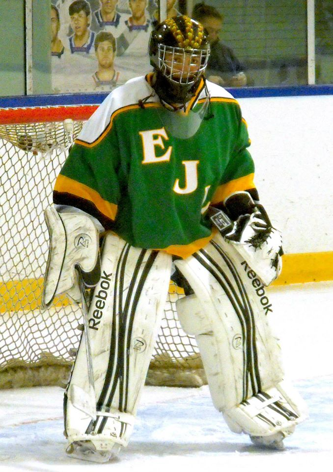 This photo was taken by Devan Mighton during the 2014-15 WECSSAA season.